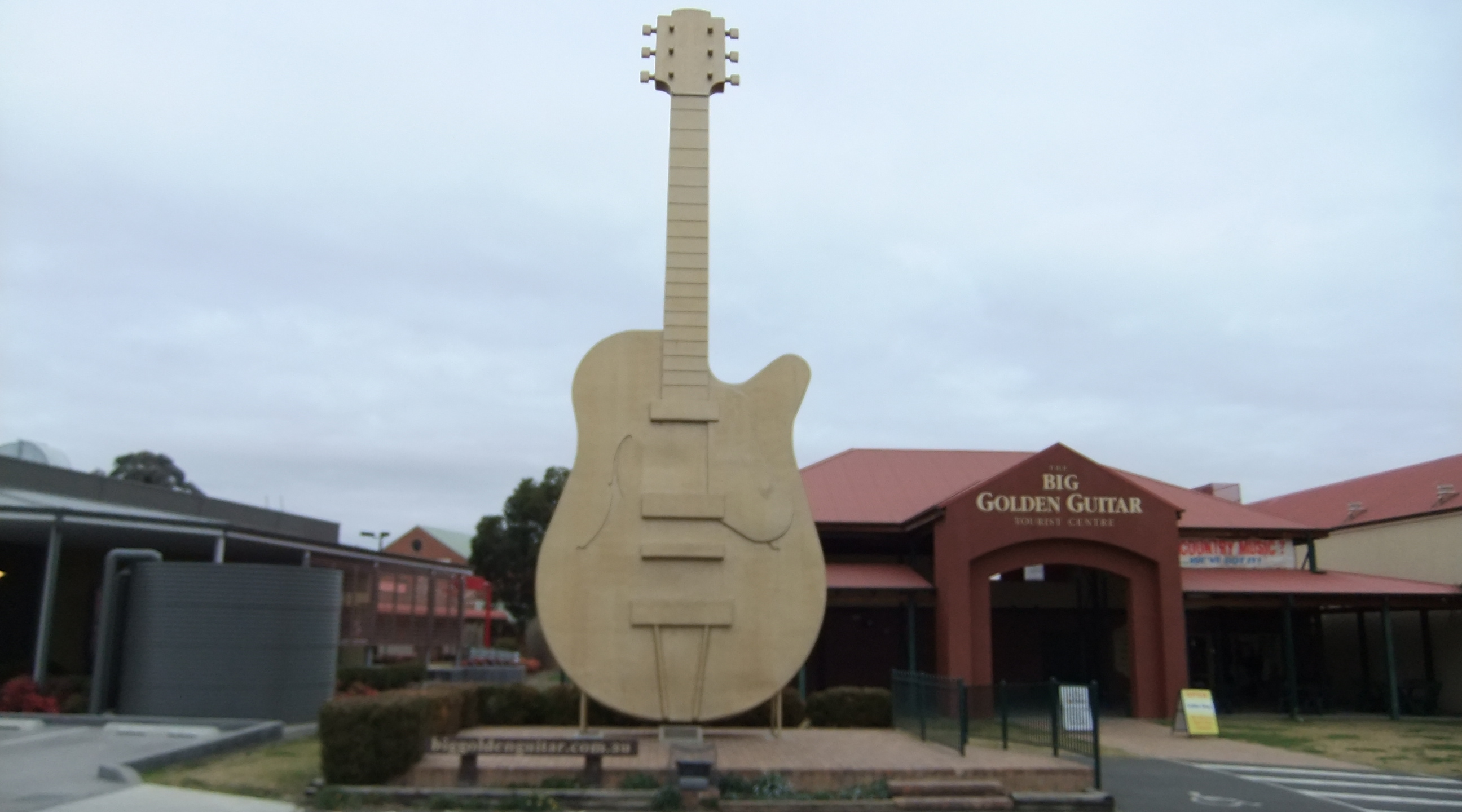 The Fuzzy & out of focus of the Big Golden Guitar - Taken on the Sunday, 10th July 2011 at 9:48am.